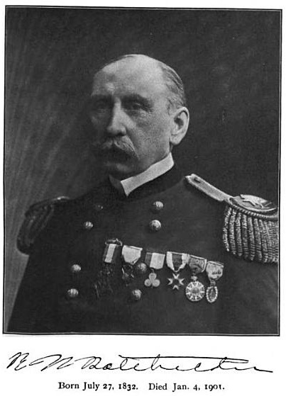 Brig. Gen. Richard Napolean Batchelder, Quartermaster-General